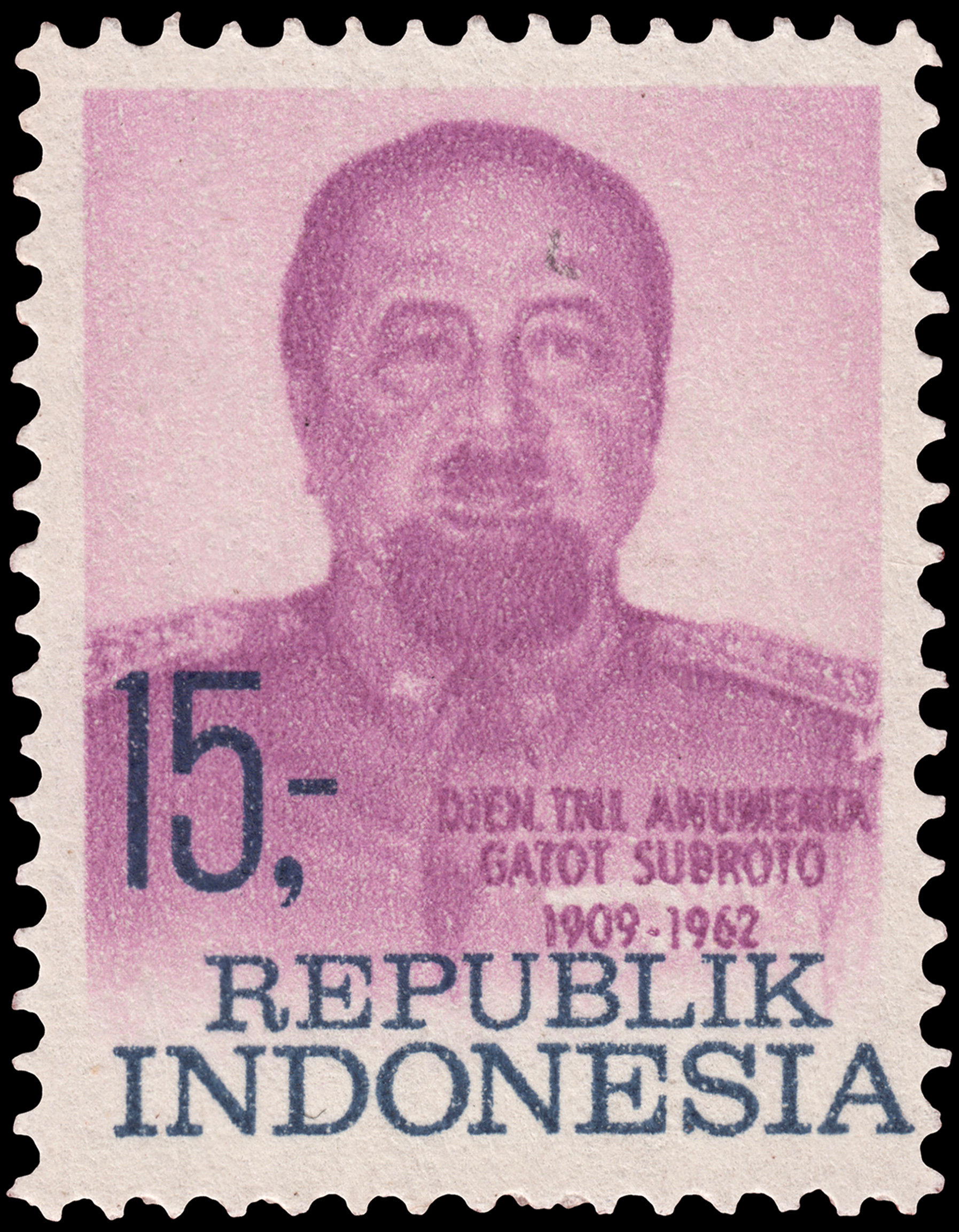 Gatot Subroto, 15rp (undated)